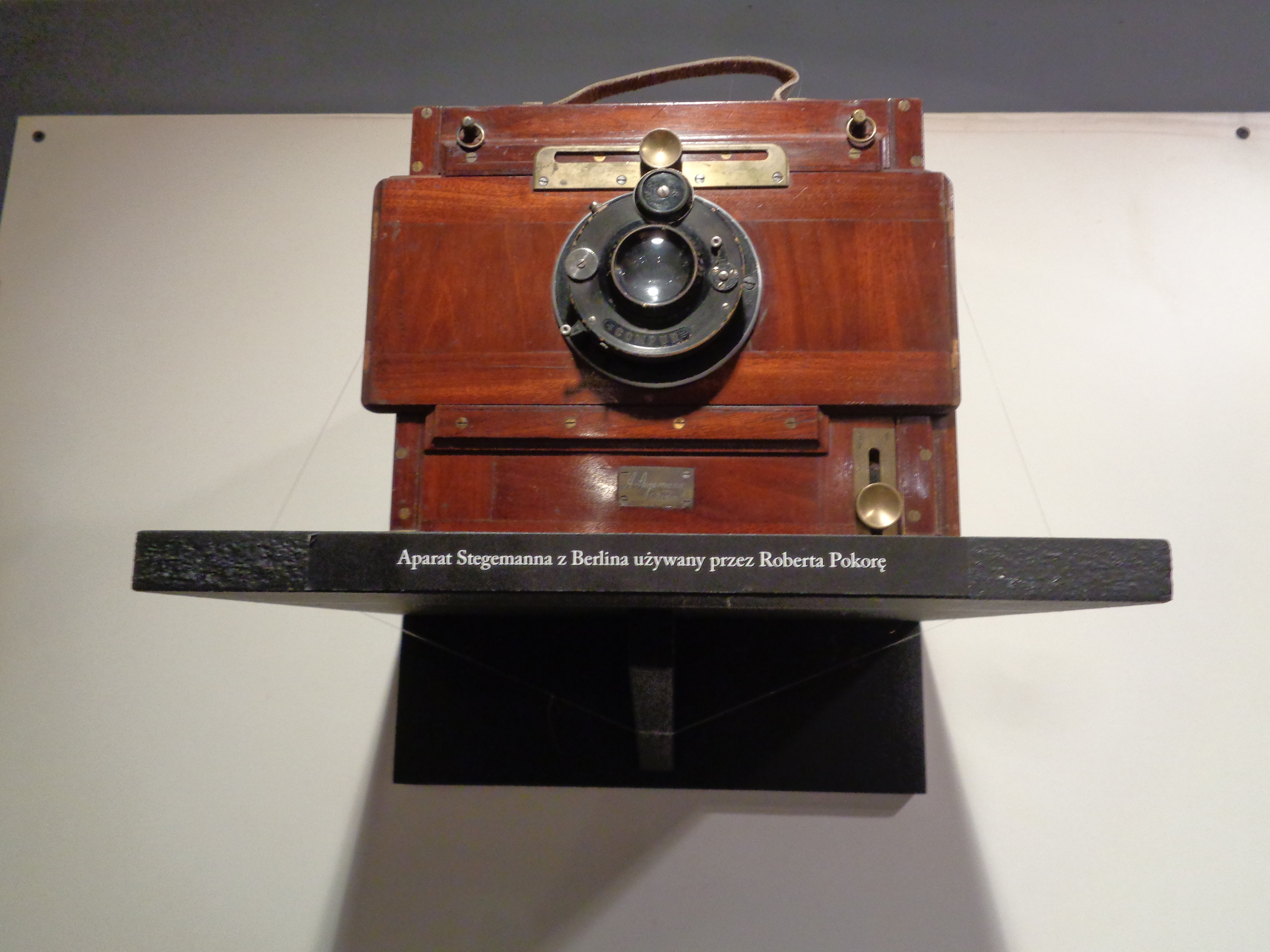 Robert Pokora's Stegemann camera on the exhibition exhibition "Fotografie od szewca. Roberta Pokory świat na szklanych negatywach" ("Photographs from shoemaker. Robert Pokora's world on the glass negative" in Museum of the Kuyavy and Dobrzyń Region in Włocławek.